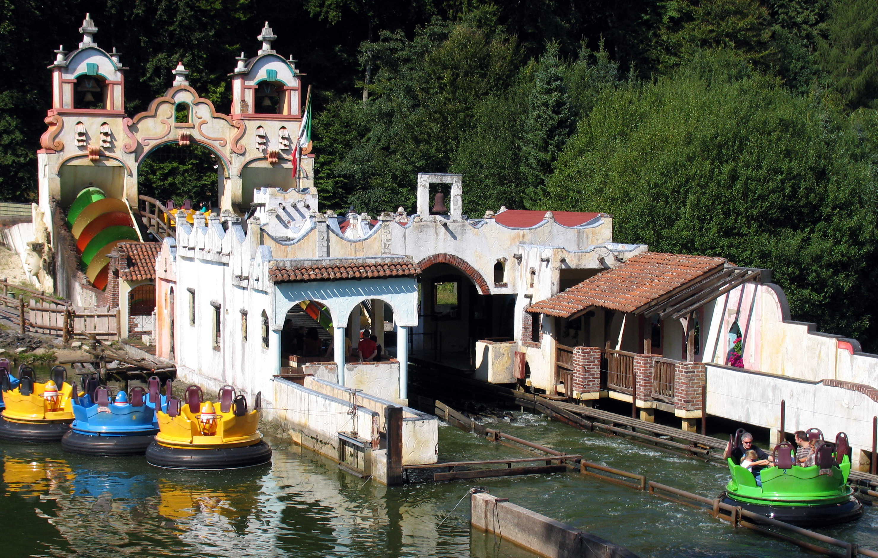 Station of Rapid River Rio Grande at Fort Fun Abenteuerland